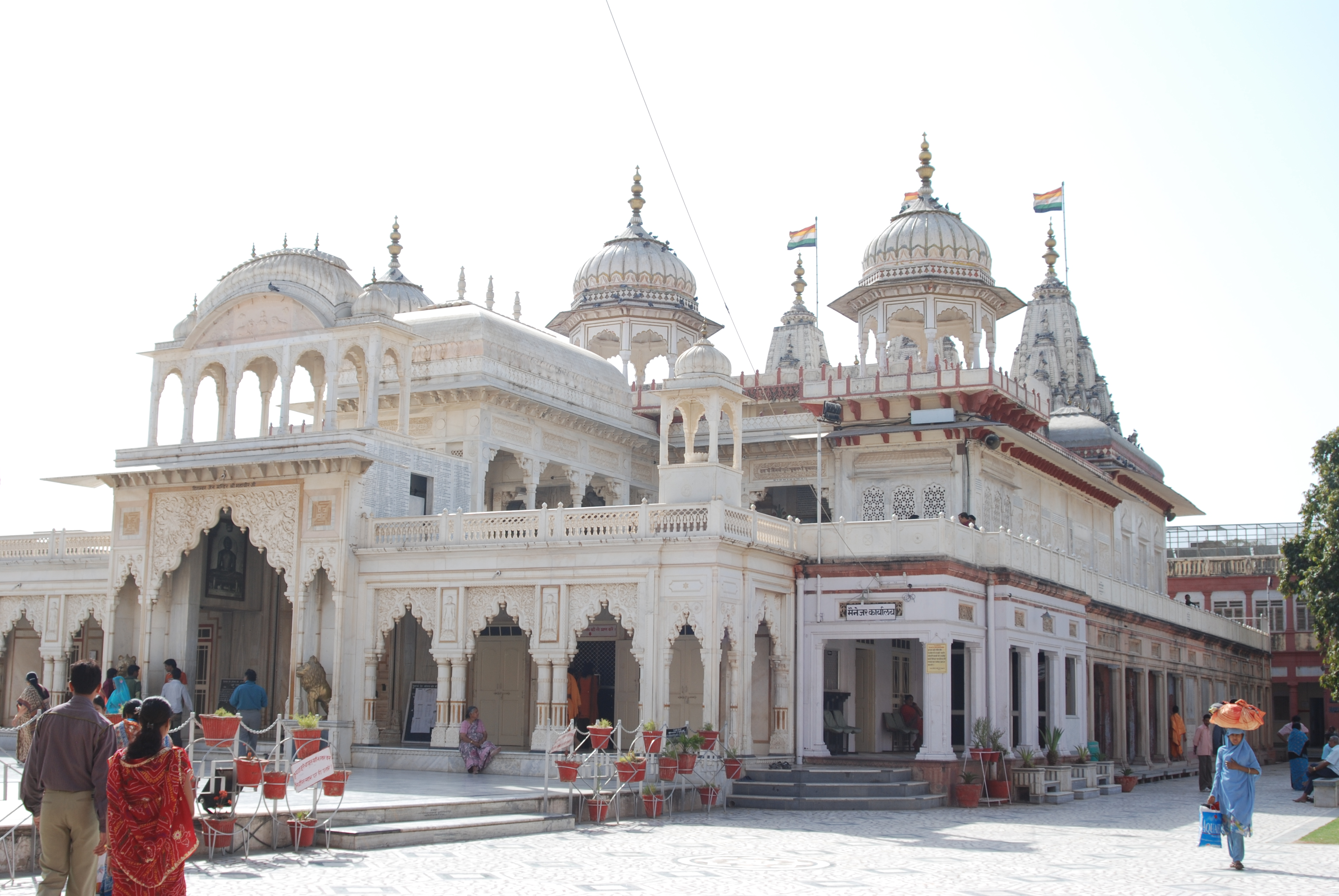 Jain Temple in Mahavir Ji.